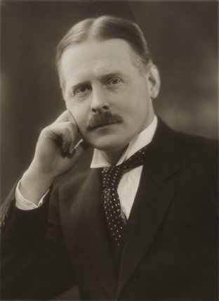 Portrait of Lord Haden-Guest